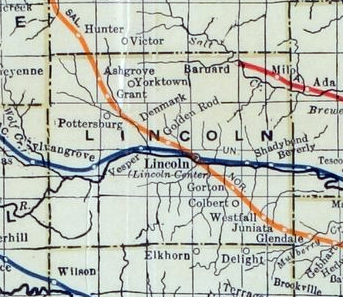 Stouffer's Railroad Map of Kansas, 1915-1918, Lincoln County.